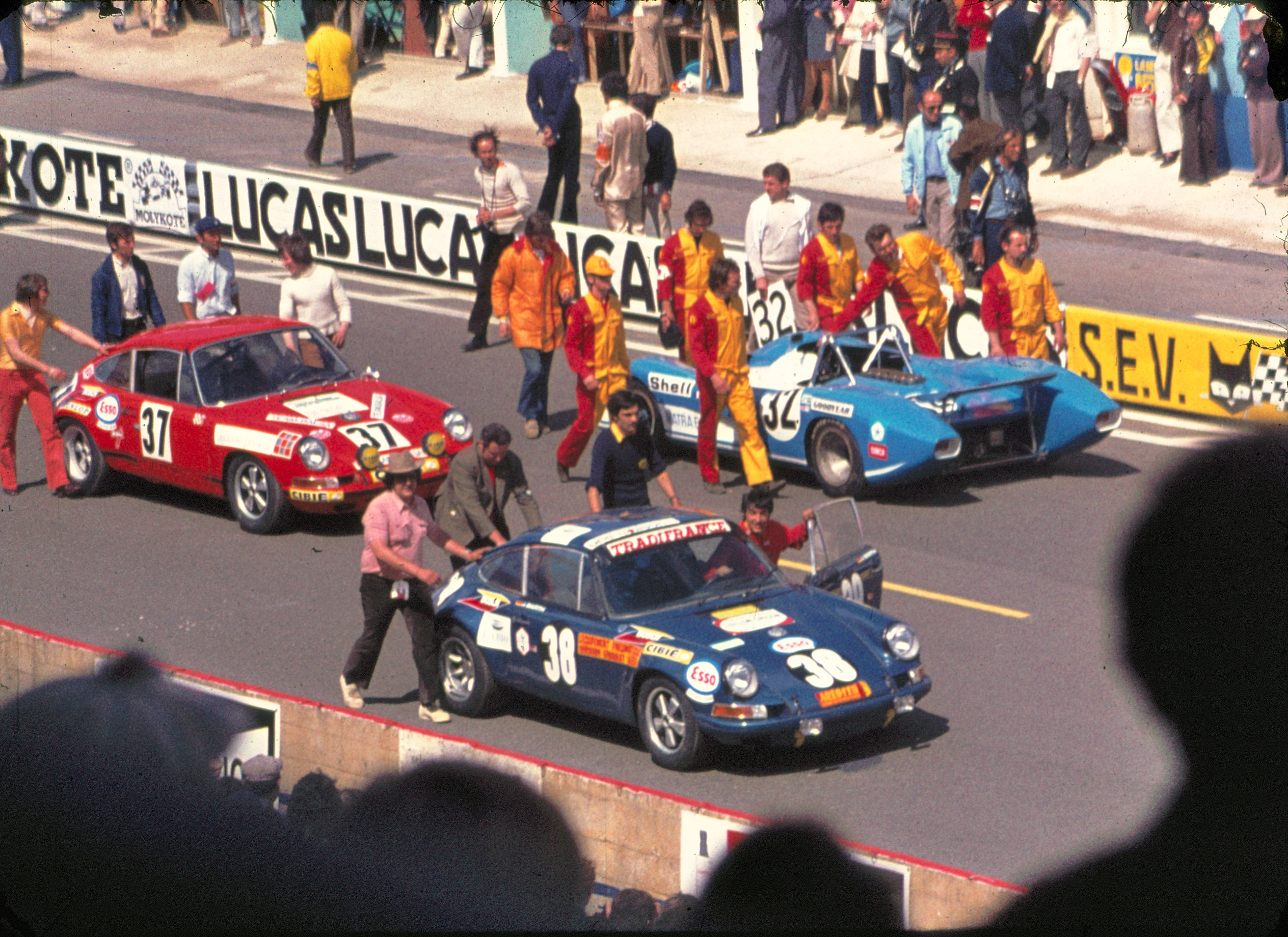 Porsche 911 EC N°38 Rene Mazzia Technique : Catégorie : GTS Moteur : F6 Porsche 2380 cm3 Pilotes : Rene Mazzia Jurgen Barth Porsche 911 S N°37 Pierre Mauroy Technique : Catégorie : GTS Moteur : F6 Porsche 2380 cm3 Pilotes : Pierre Mauroy Jean Claude Lagniez Matra Simca MS 660 N°32 Equipe Matra Technique : Catégorie : SP Moteur : V12 Matra Simca 2993 cm3 Pneus : Goodyear Pilotes : Jean Pierre Beltoise Chris Amon